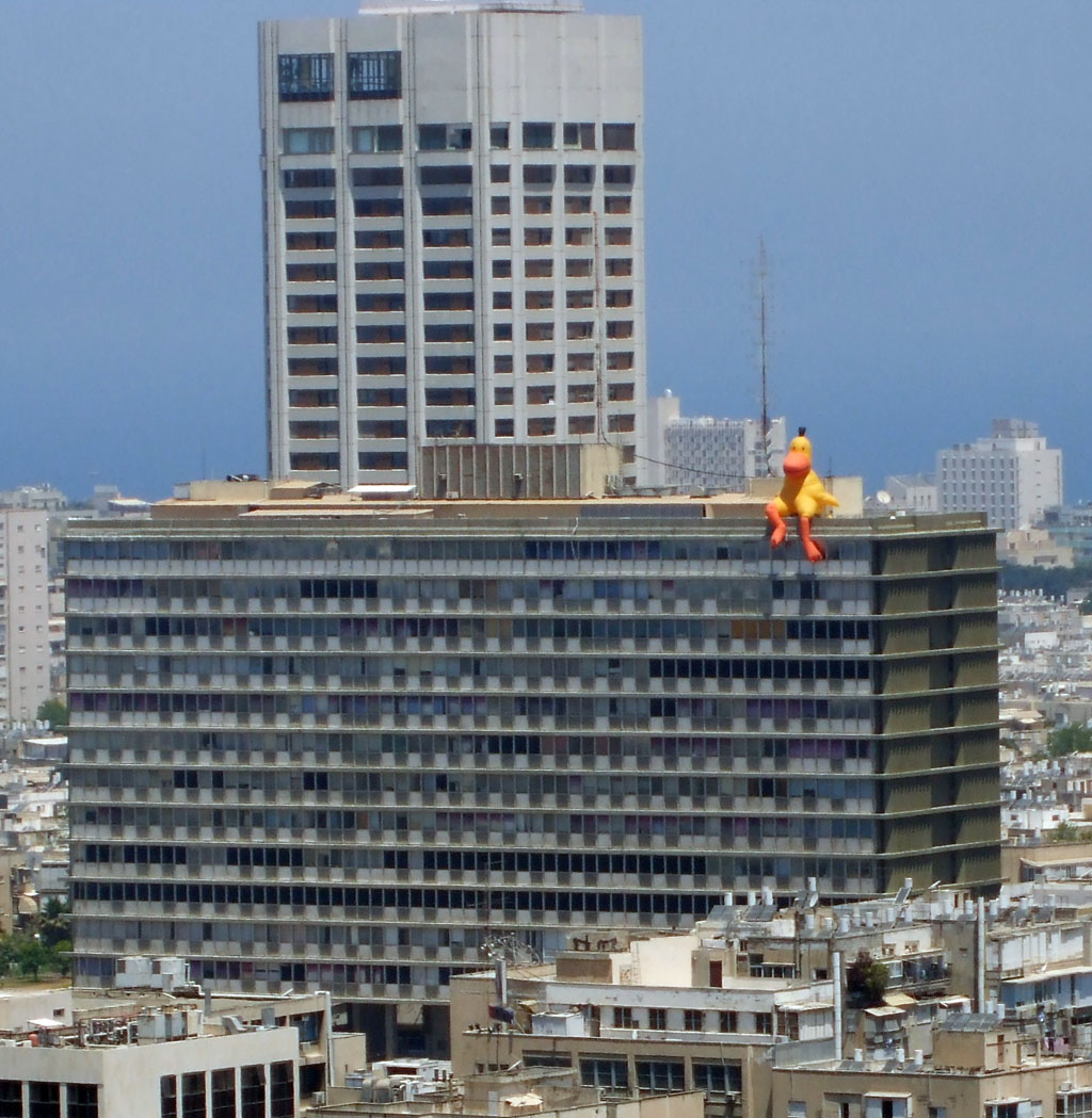 An inflatable doll in the image of Dudu Geva's duck on Tel Aviv-Yaffo city hall.